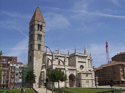 The church of Santa Maria la Antigua, Valladolid Photo by Montrealais.